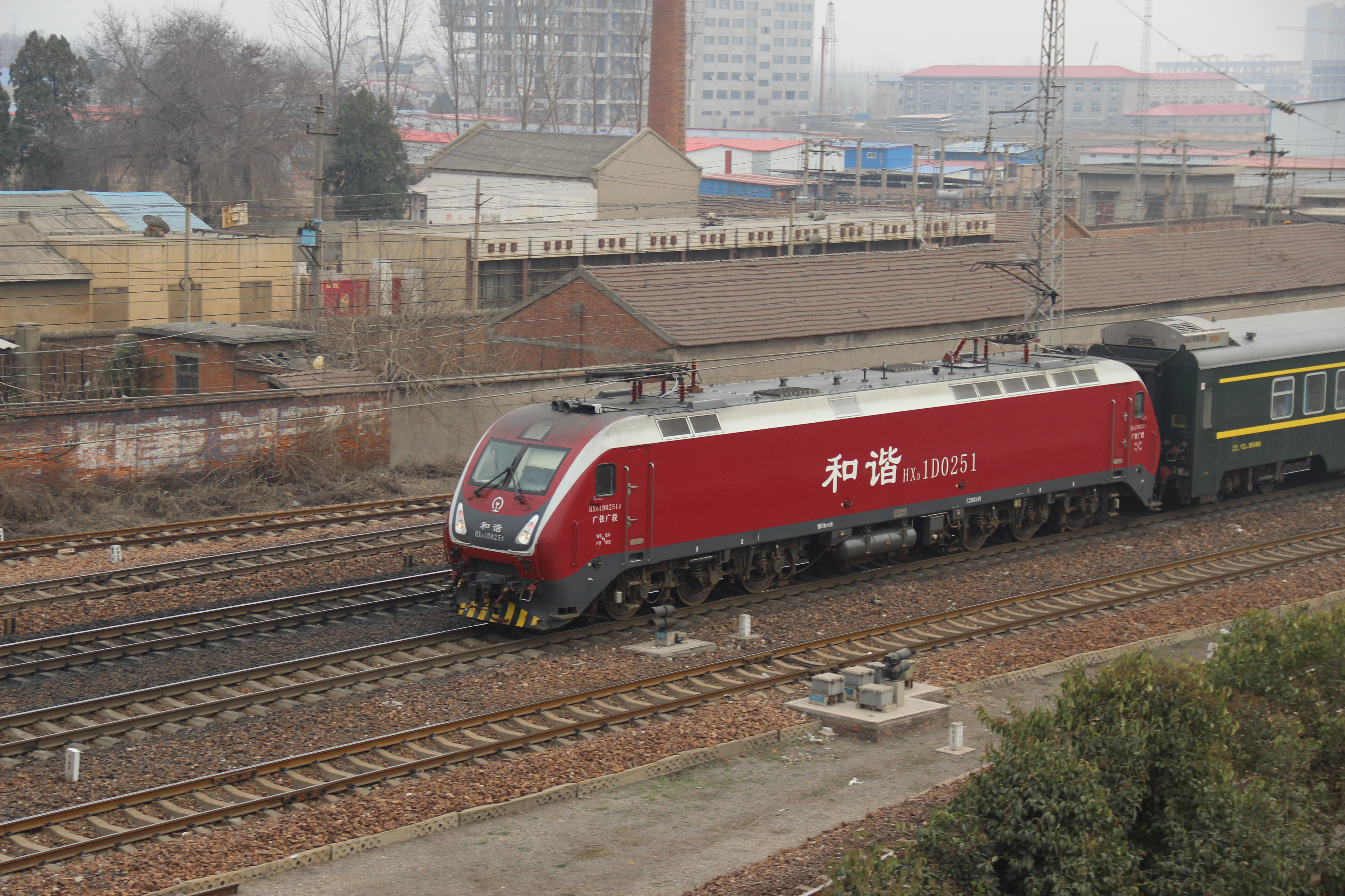 Main north-south railway line, Xinzheng, Henan, China. Complete indexed photo collection at .